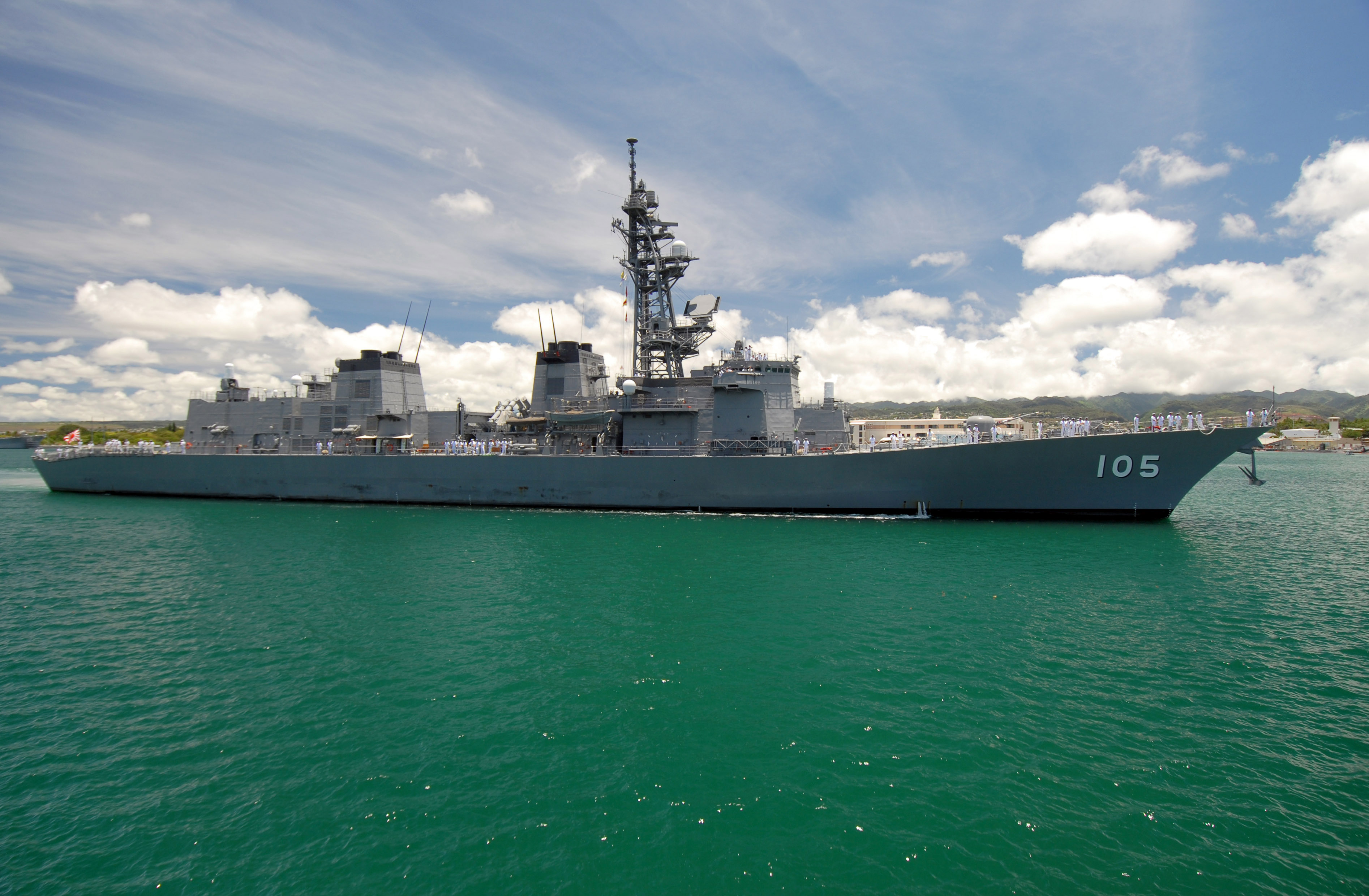 PEARL HARBOR, Hawaii (May 29, 2007) - Japan Maritime Self Defense Force (JMSDF) ship JDS Inazuma (DD-105) maneuvers through Pearl Harbor as she prepares to moor pierside at Naval Station (NAVSTA) Pearl Harbor. JMSDF ships Inazuma, JDS Chokai (DDG-176) and JDS Kurama (DDH-144) are in port at NAVSTA Pearl Harbor for a port visit while en route to San Diego to conduct training.